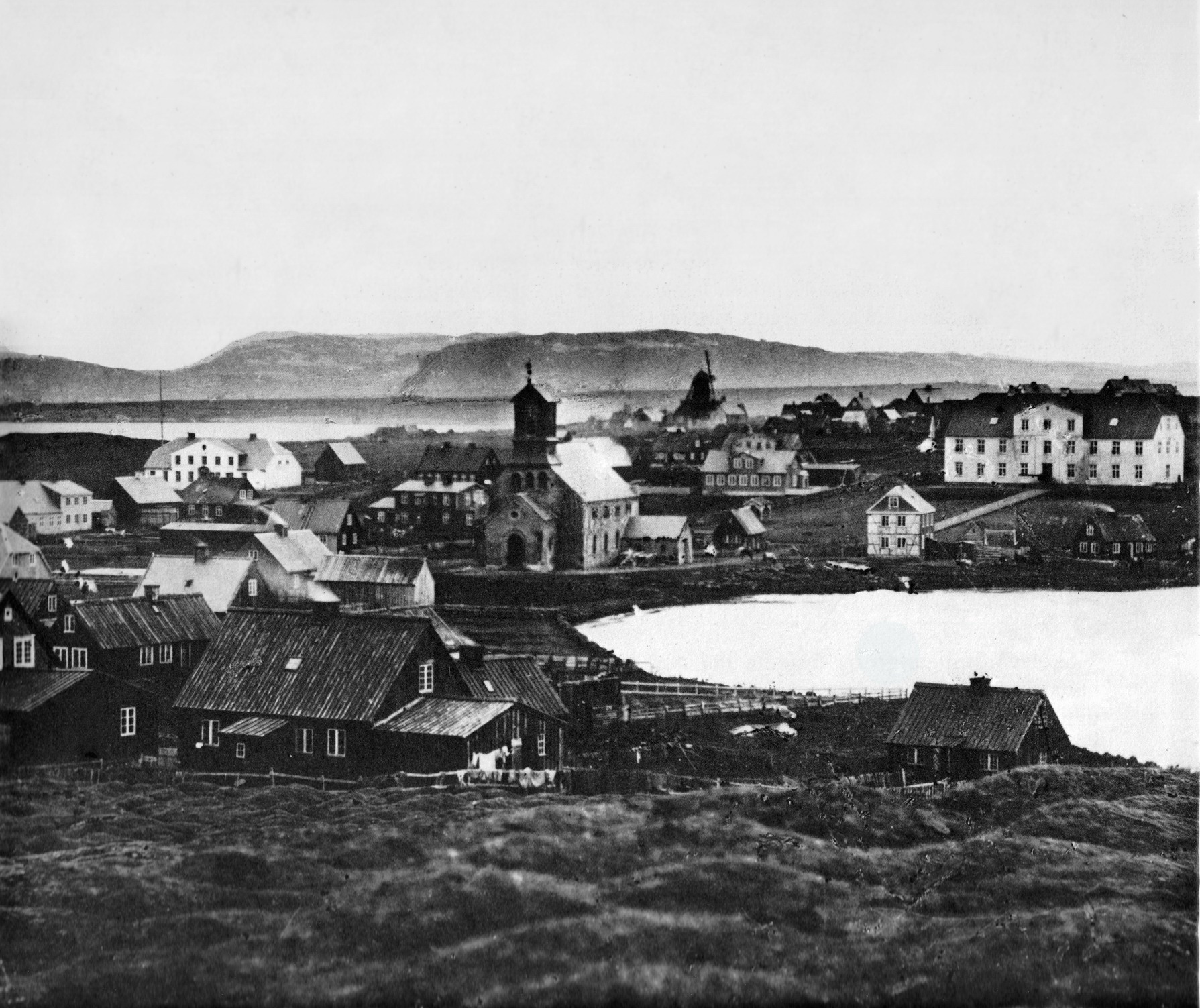 Reykjavík. Of the buildings still standing the most regognizable are the governor's house on the left (amtmannshúsið; stjórnarráðið), the cathedral in the middle (dómkirkjan) and the college on the right (MR). Also seen up in the hill is the Reykjavík mill, which used to be a landmark of Reykjavík, but no longer exists. The Pond (Tjörnin) reaches farther inland than it does now.